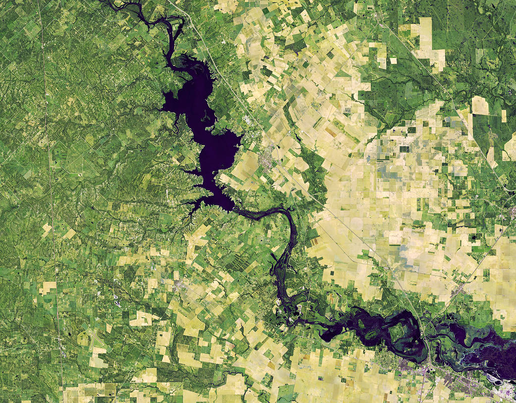 On Nov. 1, 2018, the Operational Land Imager (OLI) on Landsat 8 captured a false-color view of flooding along the Nueces River in a series of storms that have delivered historic amounts of rain to central Texas. The remnants of the category 3 storm, Hurricane Willa, weakened Texas dry terrain, pushing in a stream of moisture and rain. The deluge saturated soils, overfilled lakes and reservoirs, and pushed rivers over their banks. One river even flowed backwards. Dallas Fort Worth Airport recorded 39.77 centimeters (15.66 inches) of rain in October 2018, making it the wettest October on record there, according to the National Weather Service.